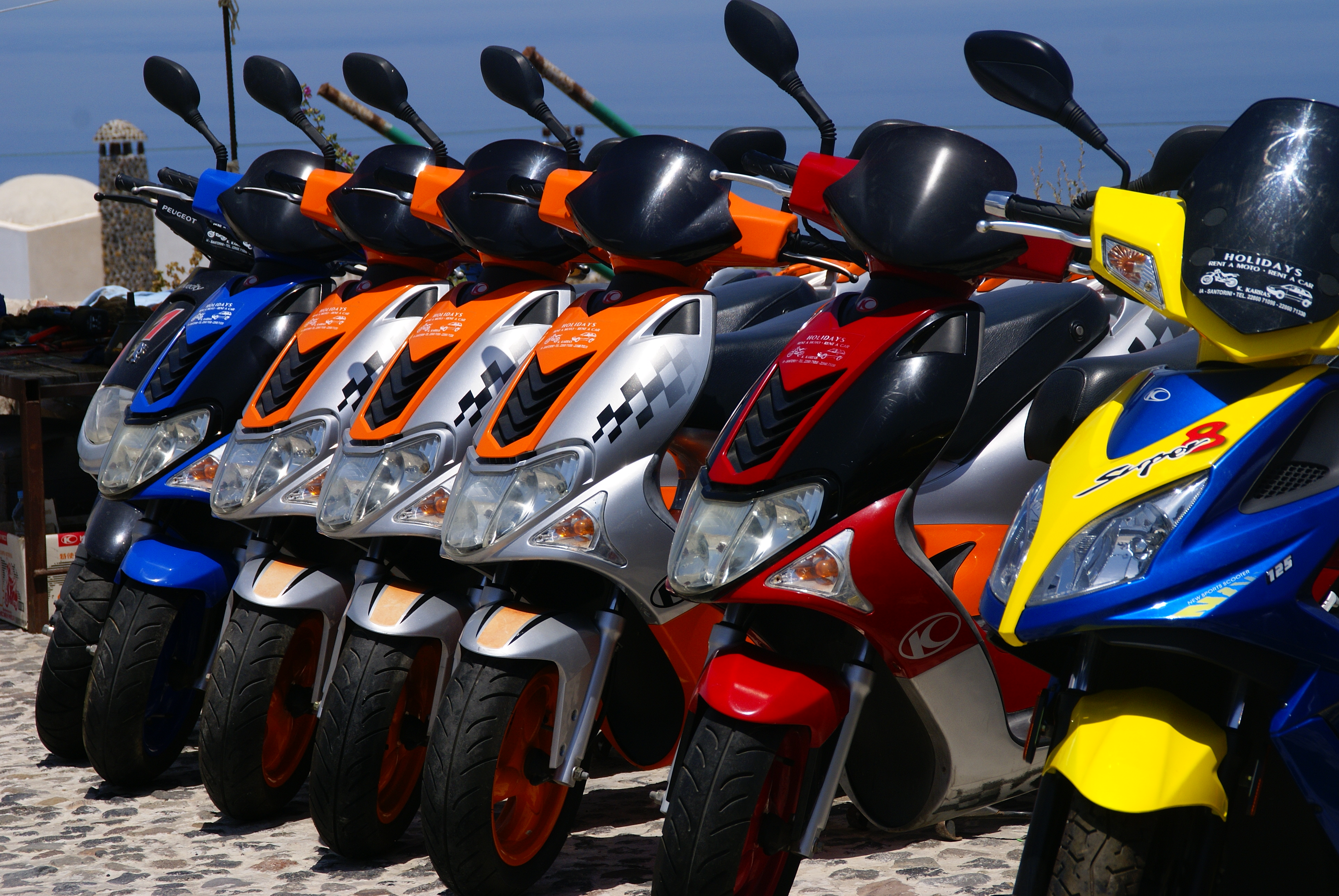 Rental Scooters parked in Santorini - OIA. Kymco Super9